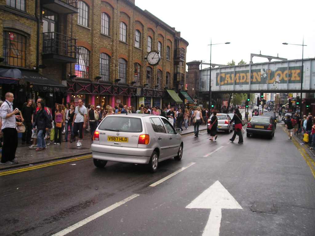 Camden Town